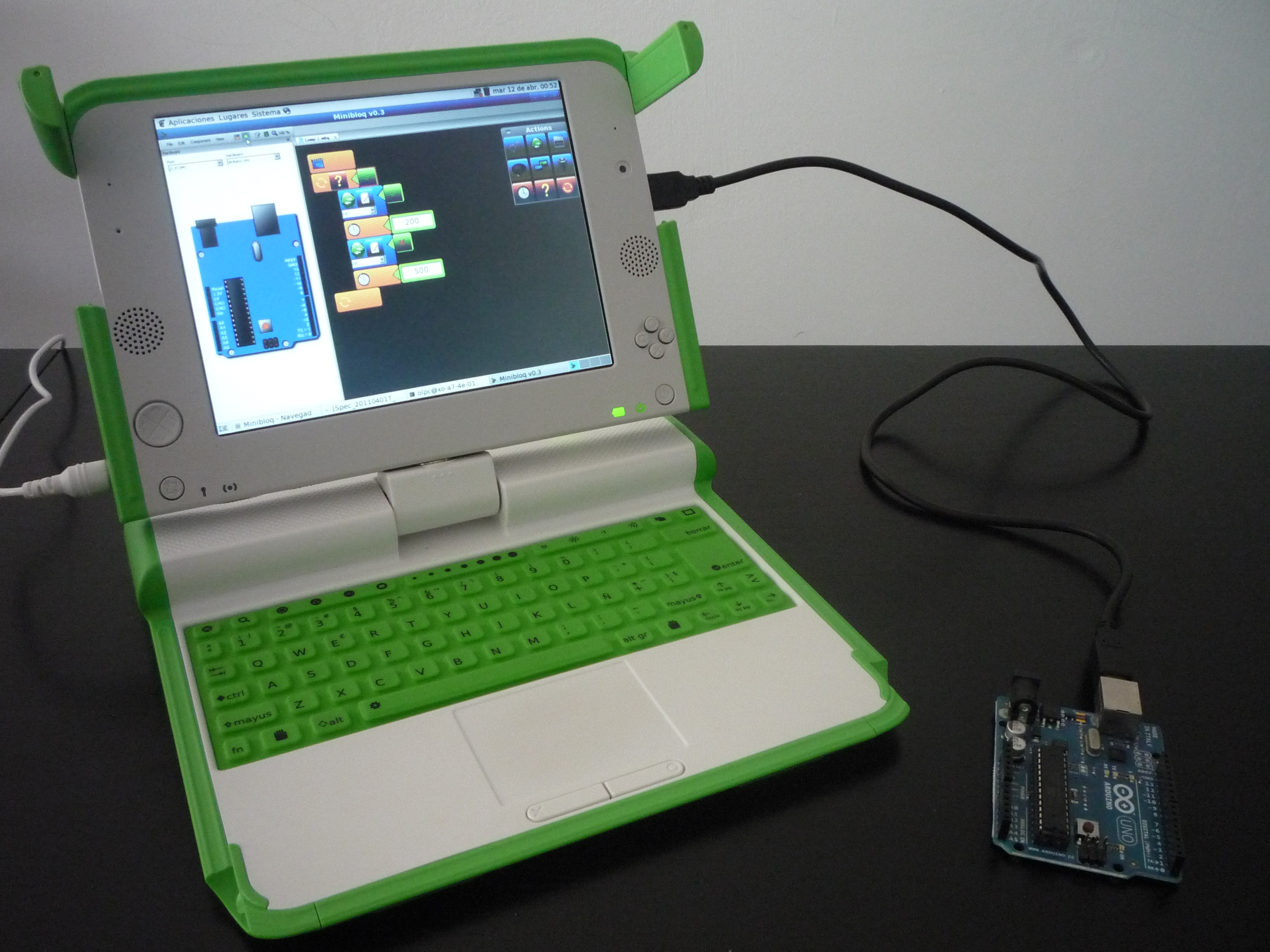 Minibloq running in OLPC XO progamming an Arduino UNO.